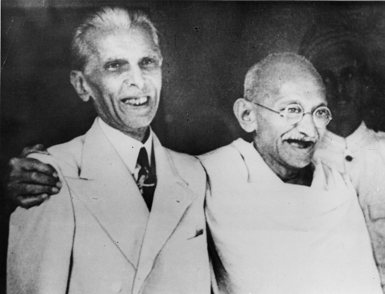 Photograph of Jinnah with Gandhi in 1944. From BL Photo 429/(17), held and digitised by the British Library.